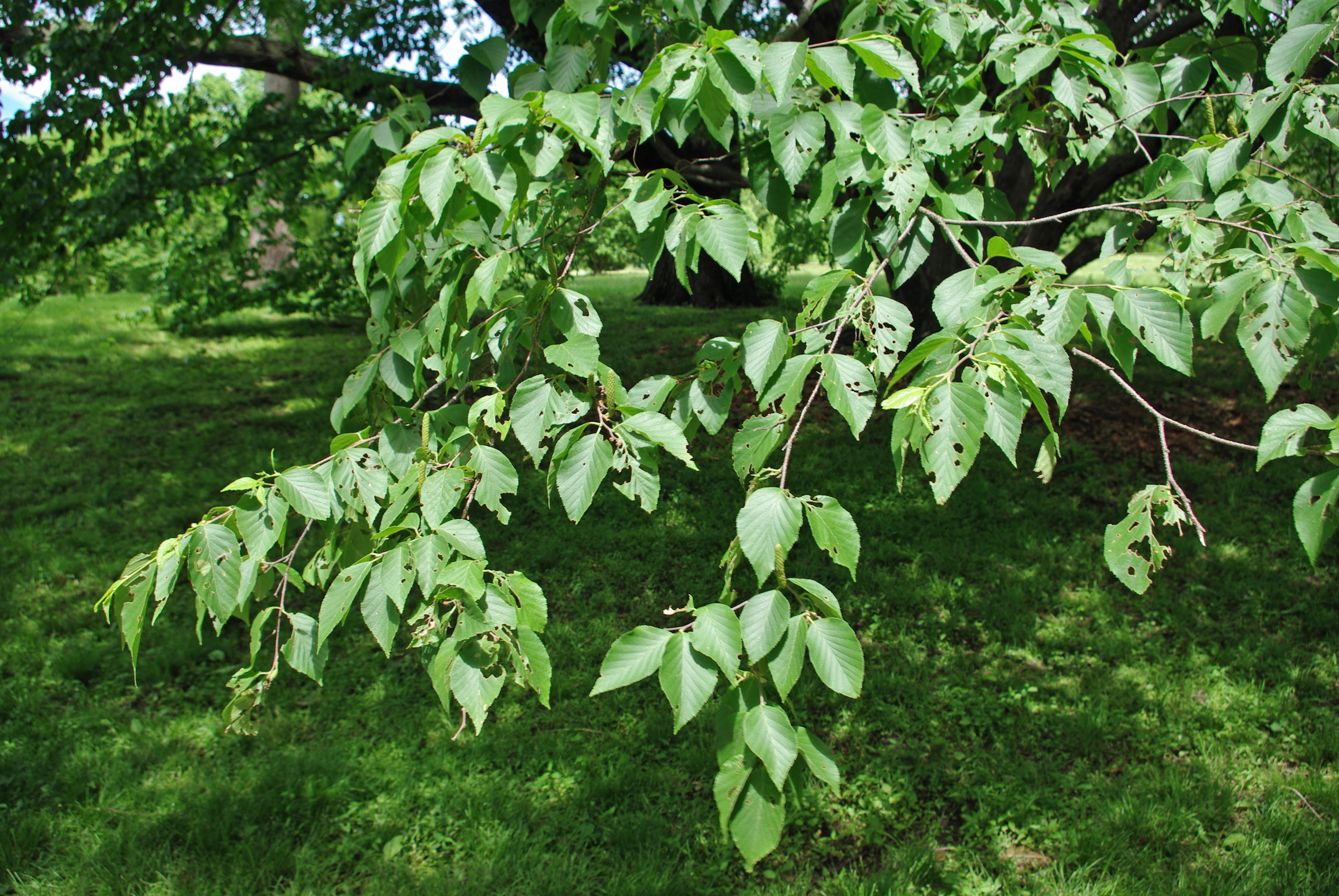 Foliage of Betula schmidtii, Arnold Arboretum, Boston, Massachusetts